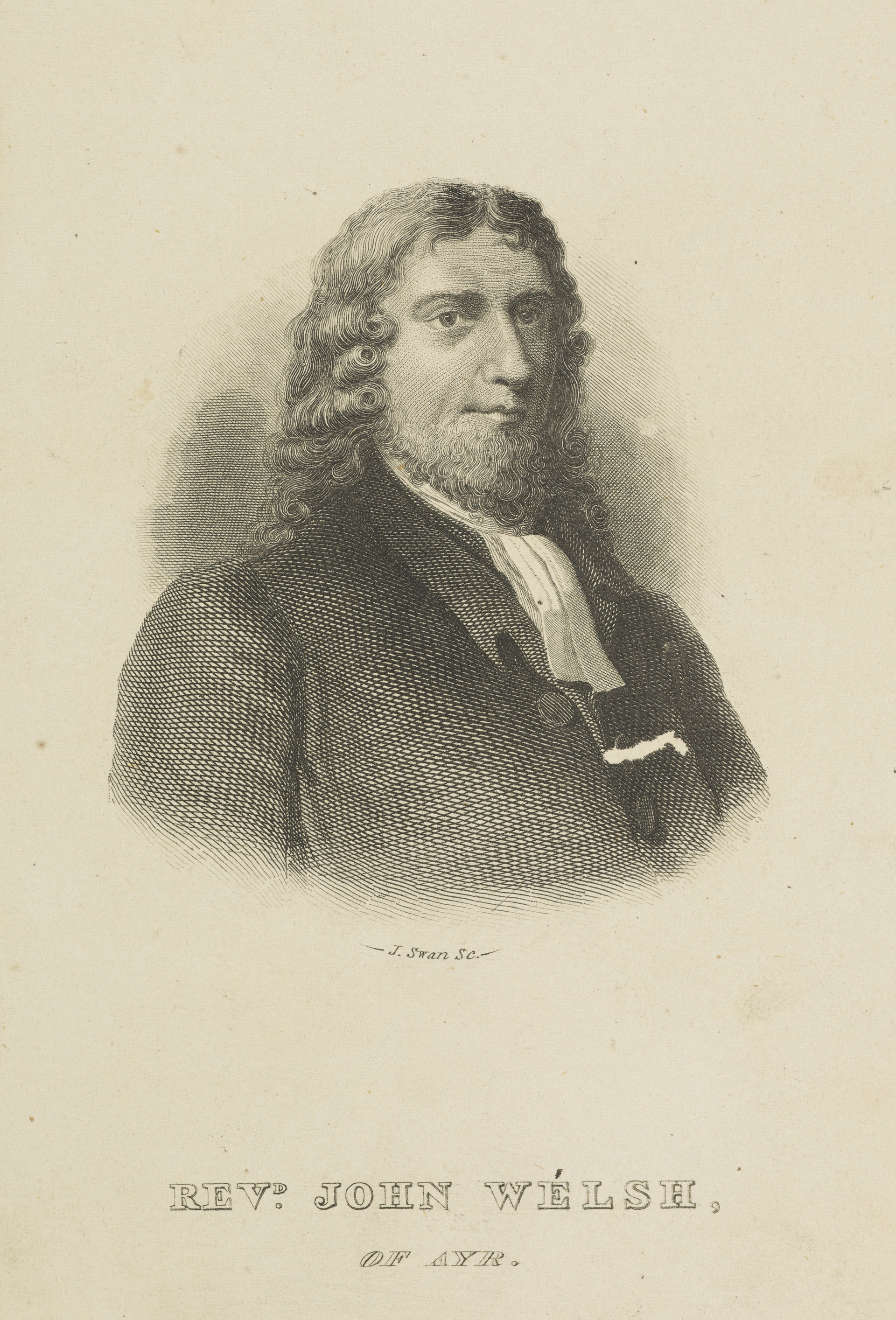 Joseph Swan's picture of Rev. John Welsh of Ayr (Bequeathed by William Findlay Watson 1886)